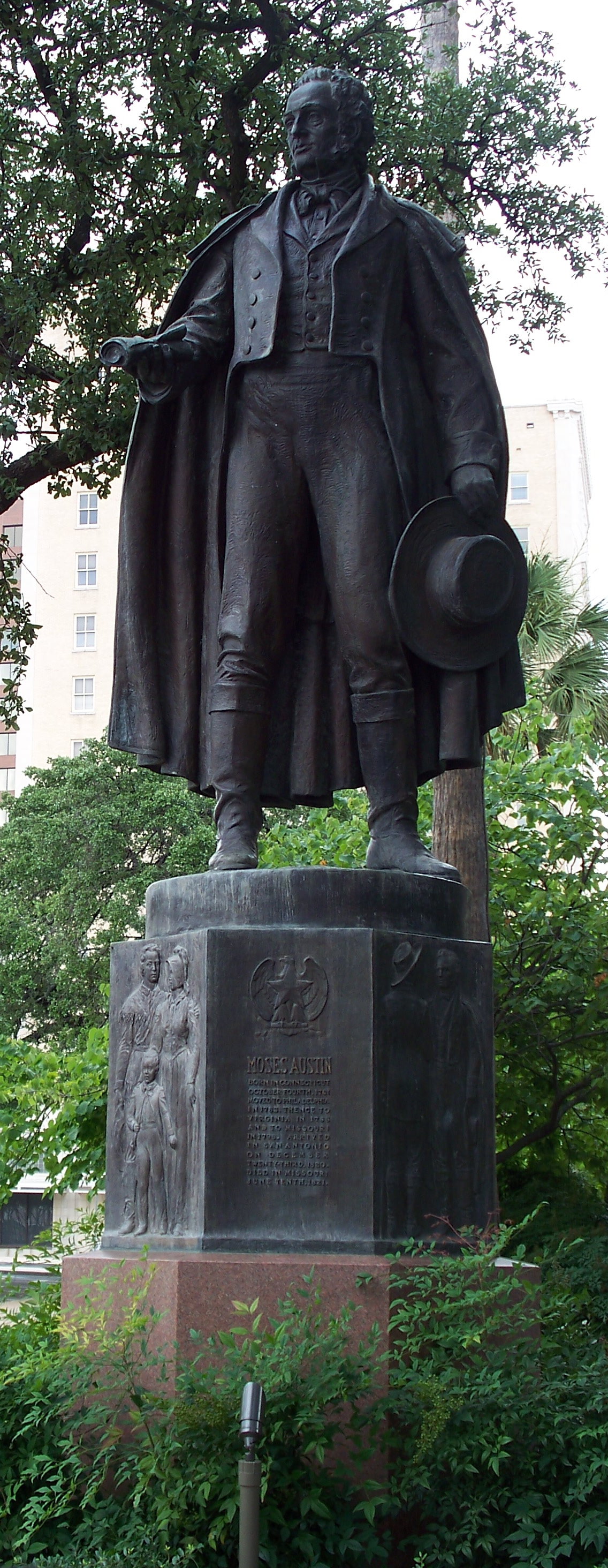 A statue of Moses Austin (1937) sculpted by Waldine Tauch for the Texas Centennial is located opposite the Governor's Palace on the northwest corner of city hall grounds in San Antonio, Texas